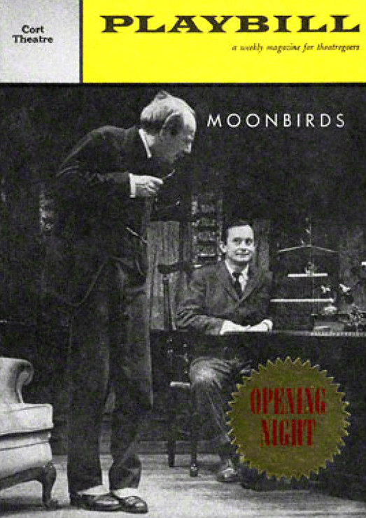 Cover of Playbill for the 1959 opening of The Moonbirds on Broadway with Michael Hordern. Hordern and Wally Cox are seen in the photo. A search for renewal was done at using the magazine's title, Playbill. Most of the listings are for post-1978 original registrations. There are some older copies which were renewed, but no 1959 copies of the magazine were renewed. There's no evidence of copyright for 1959 issues of Playbill.